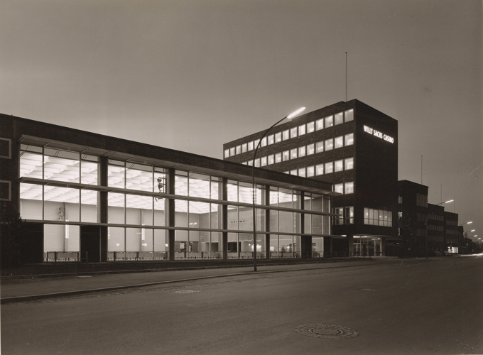 former file didn't work